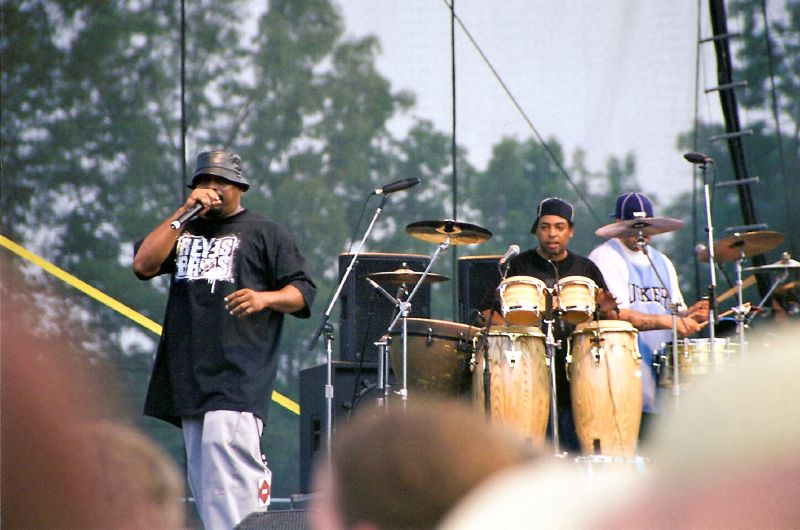 Sen Dog, Bobo and B-Real of Cypress Hill